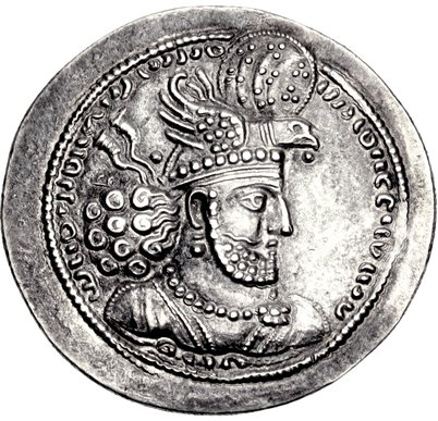 Coin of Hormizd II, a Sasanian king.